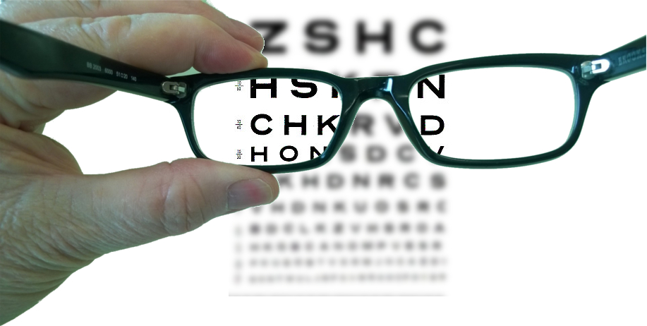 Hand holding eyeglasses in front of eye chart